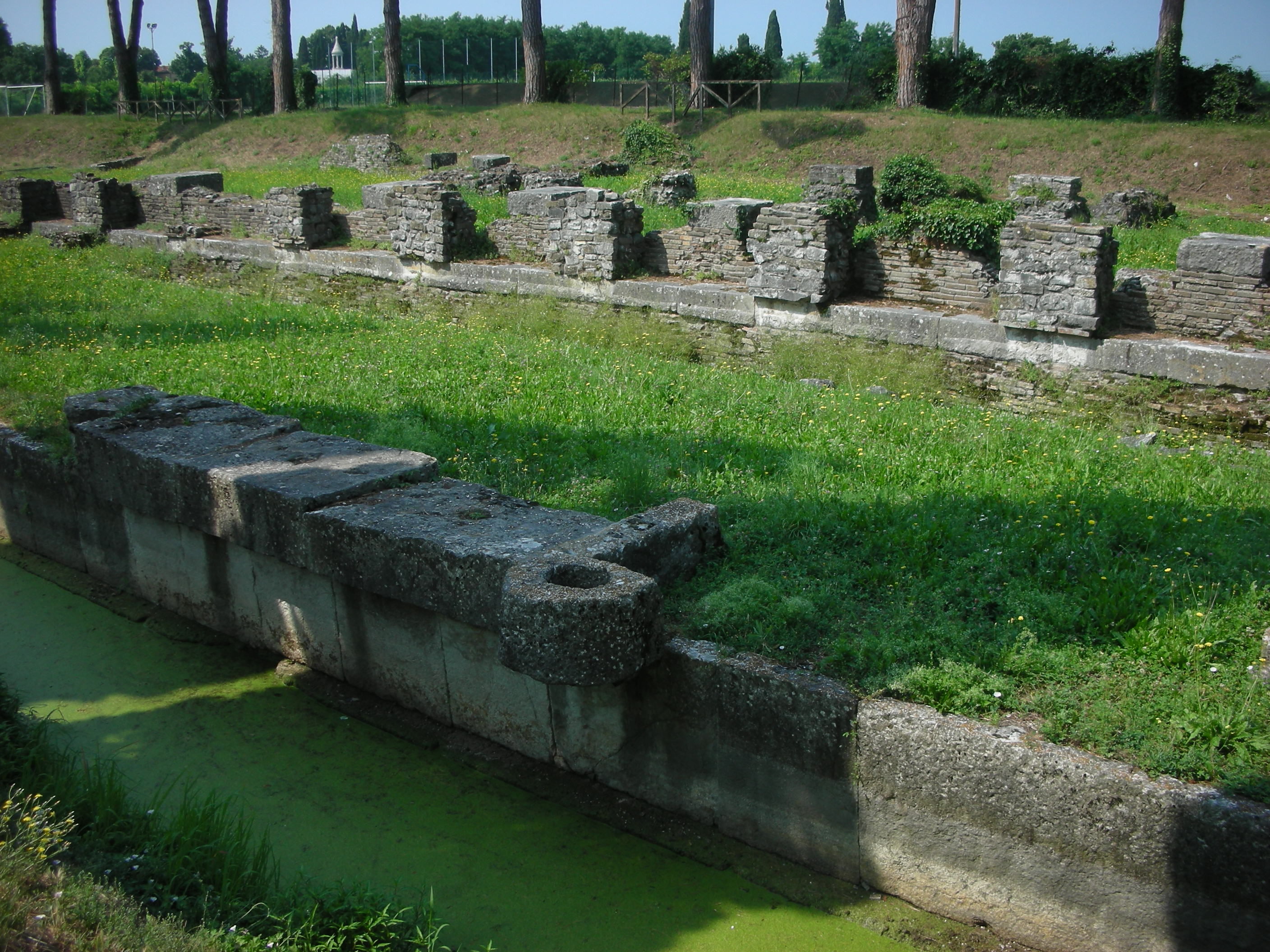 Antique port of Aquileia - Quaywall with ring, and warehouses.